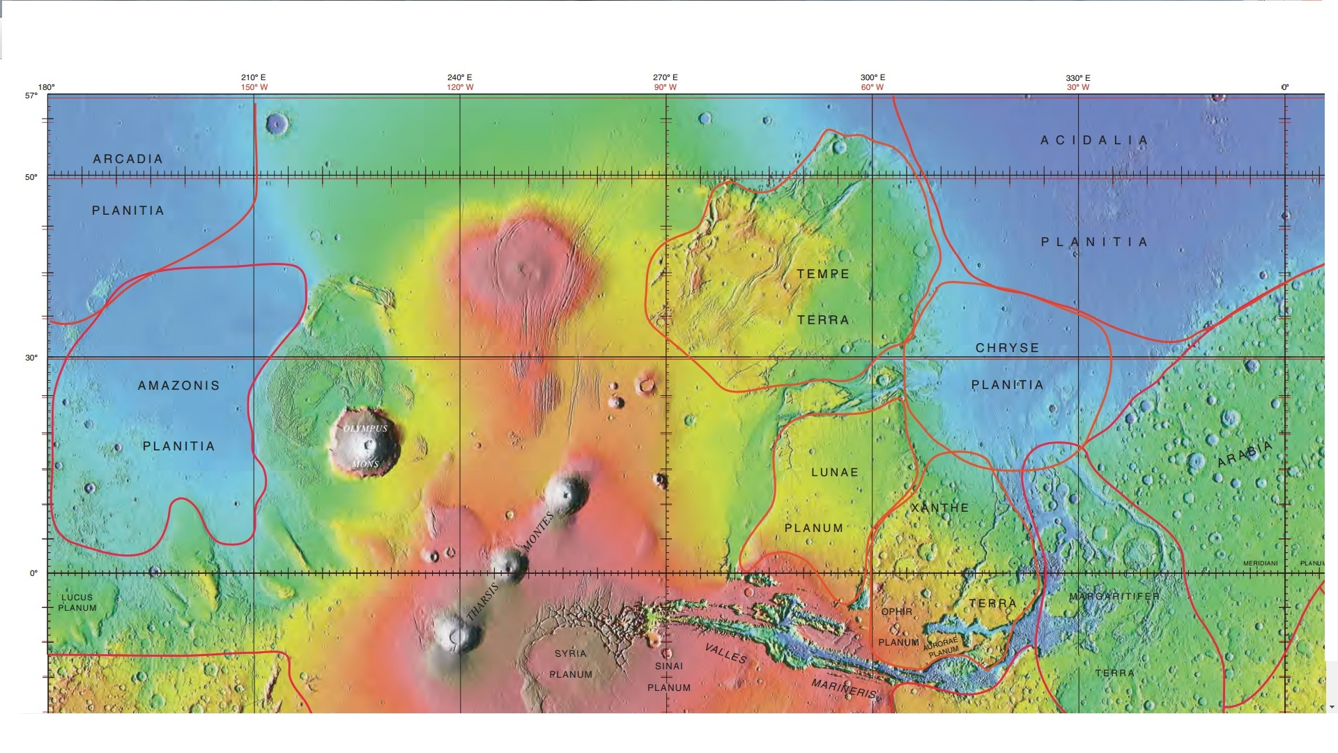 MOLA map showing amazonis, part of arcadia and several other regions